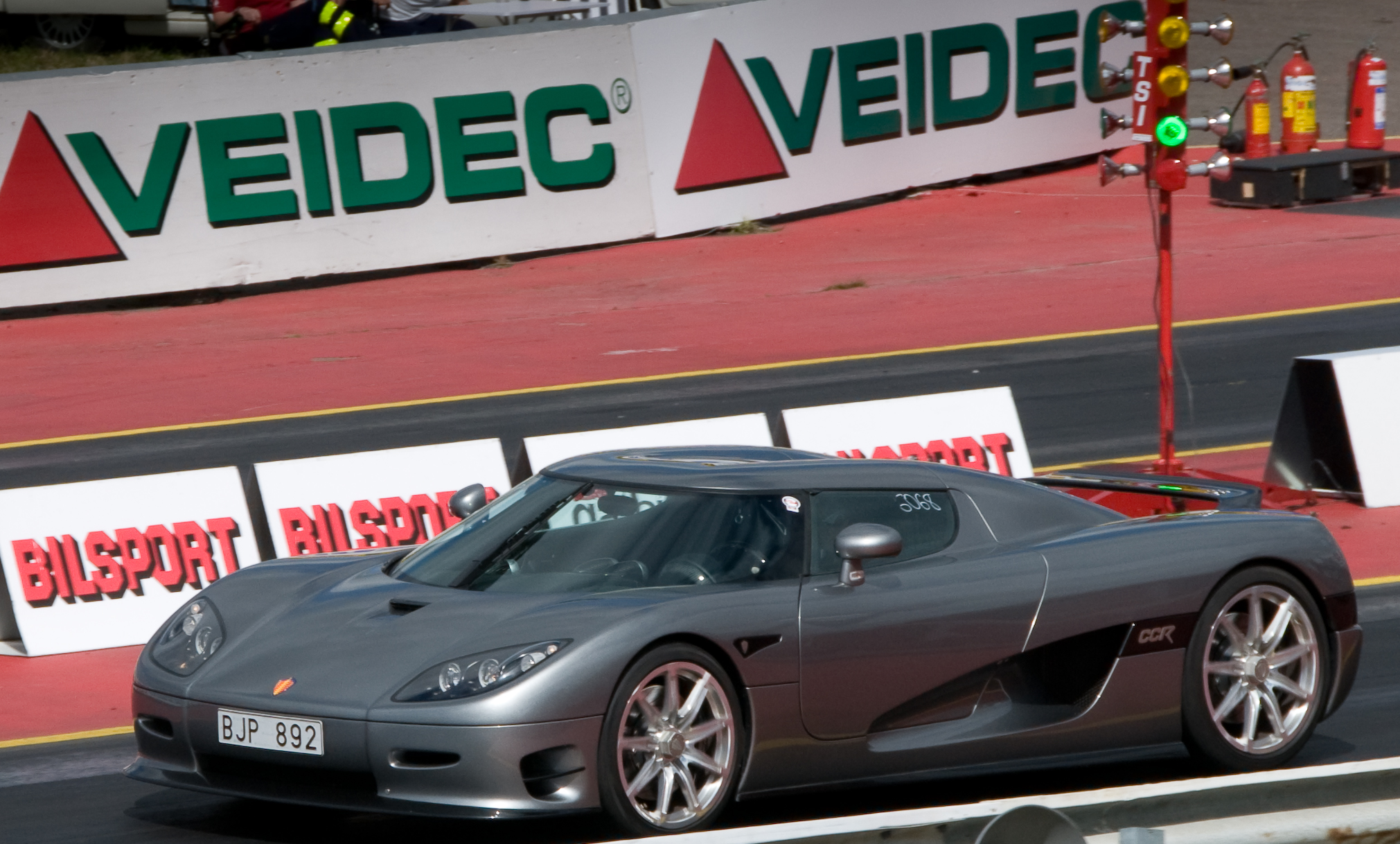 Koenigsegg CCR at Action Meet.